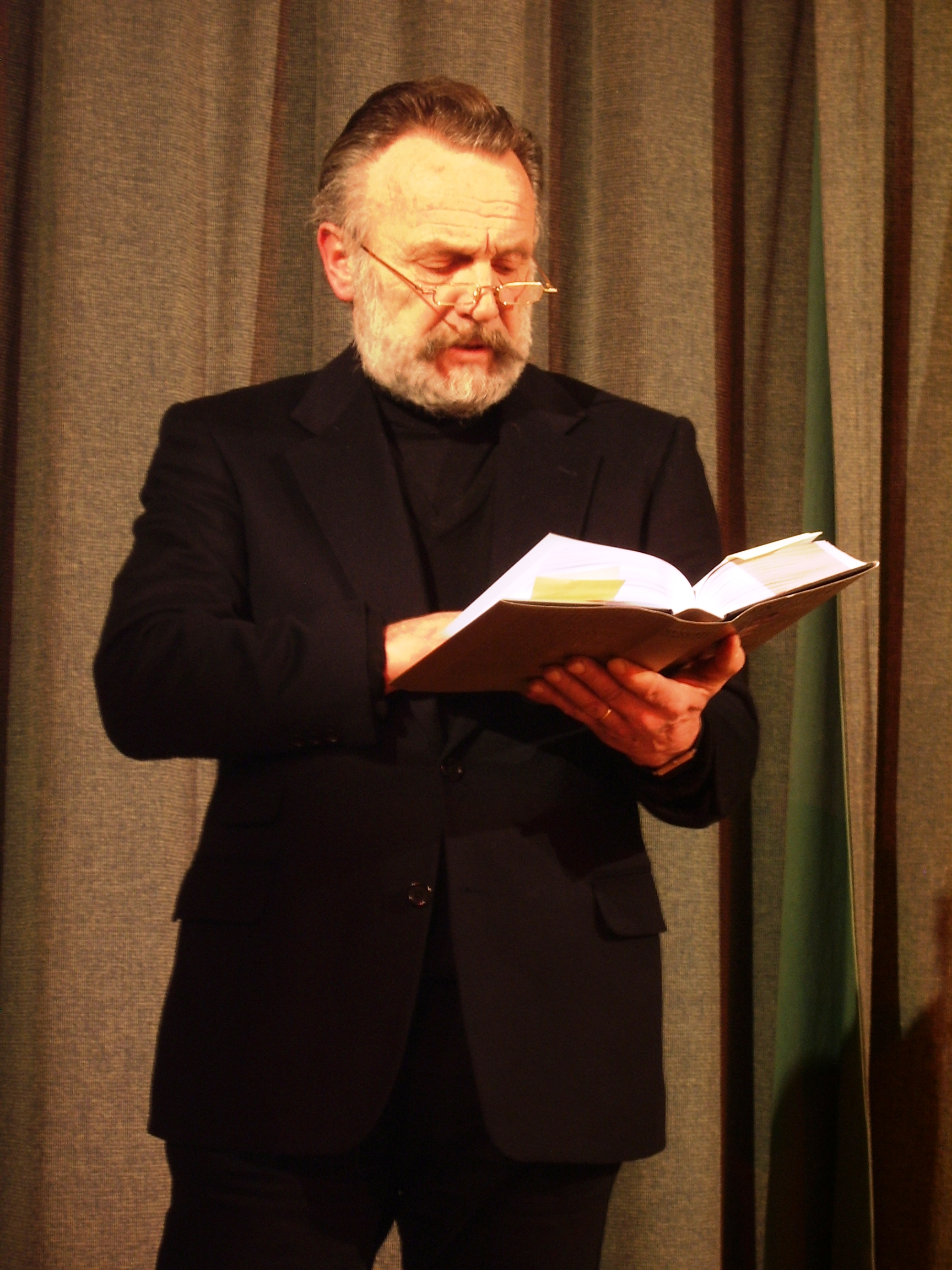 Andres Ots (born 1944) is Estonian actor and singer.